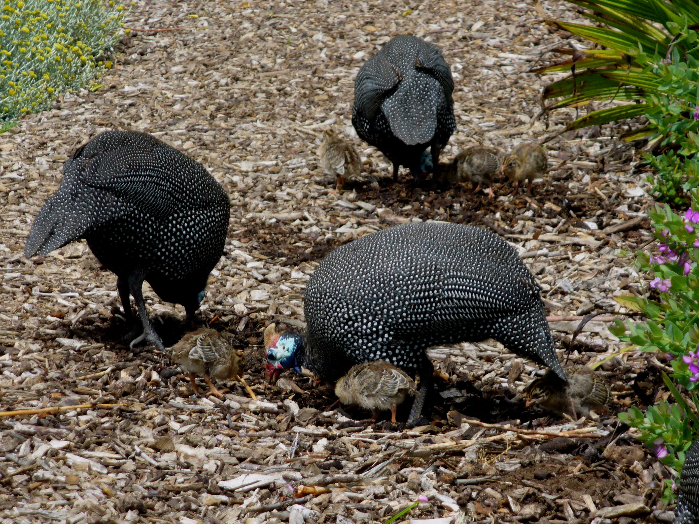 Helmeted guineafowl with chicks foraging in Kirstenbosch Botanical Garden, Cape Town, South Africa